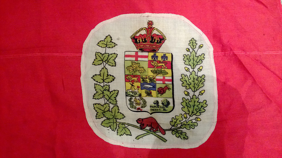 Canadian Red Ensign (c1873) from Settlers, Rails & Trails Inc. (Argyle, Manitoba, Canada) famous Canadian Flag Collection.